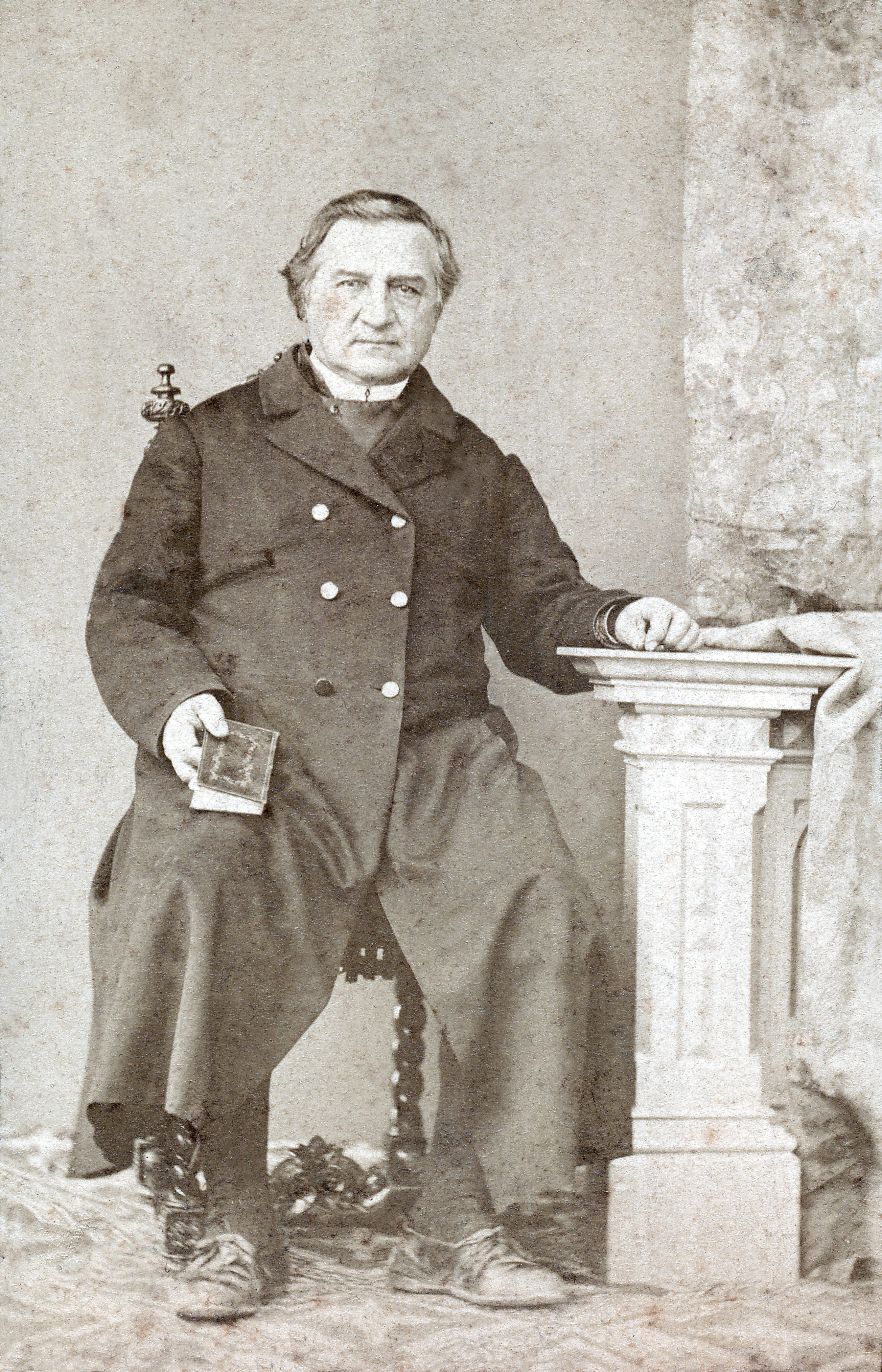 The priest Josef Anton Vian (1804 - 1888)